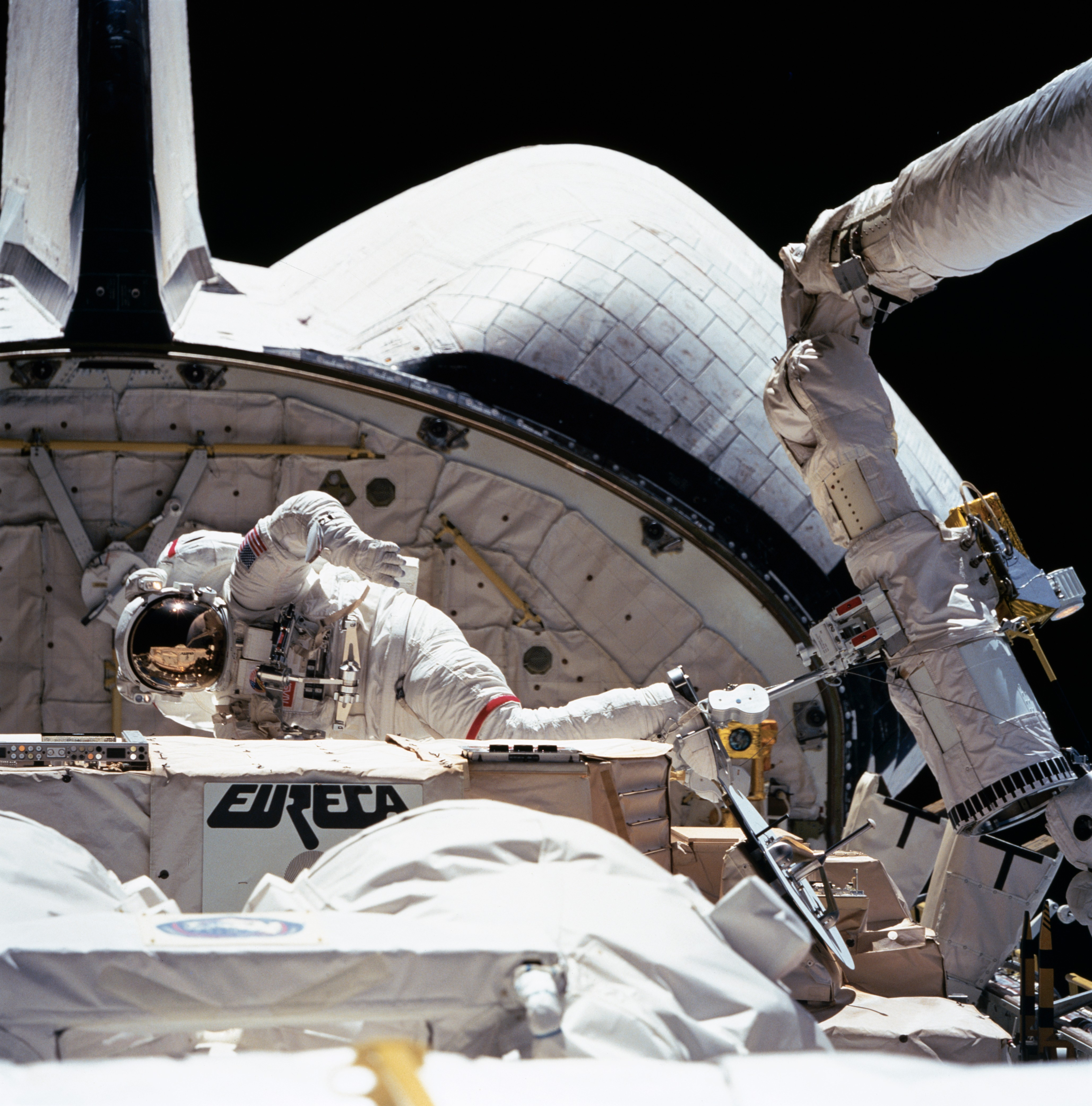 Pictured near the European Retrievable Carrier (EURECA) at frame center is Mission Specialist David Low. Suited in an extravehicular mobility unit, Low is anchored to the remote manipulator system. Partially visible in the foreground is the Superfluid Helium Onorbit Transfer (SHOOT) payload.